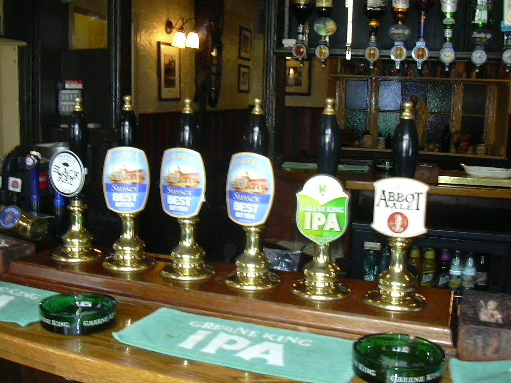 Handpumps at Lewes Arms pub in Lewes, Sussex, England